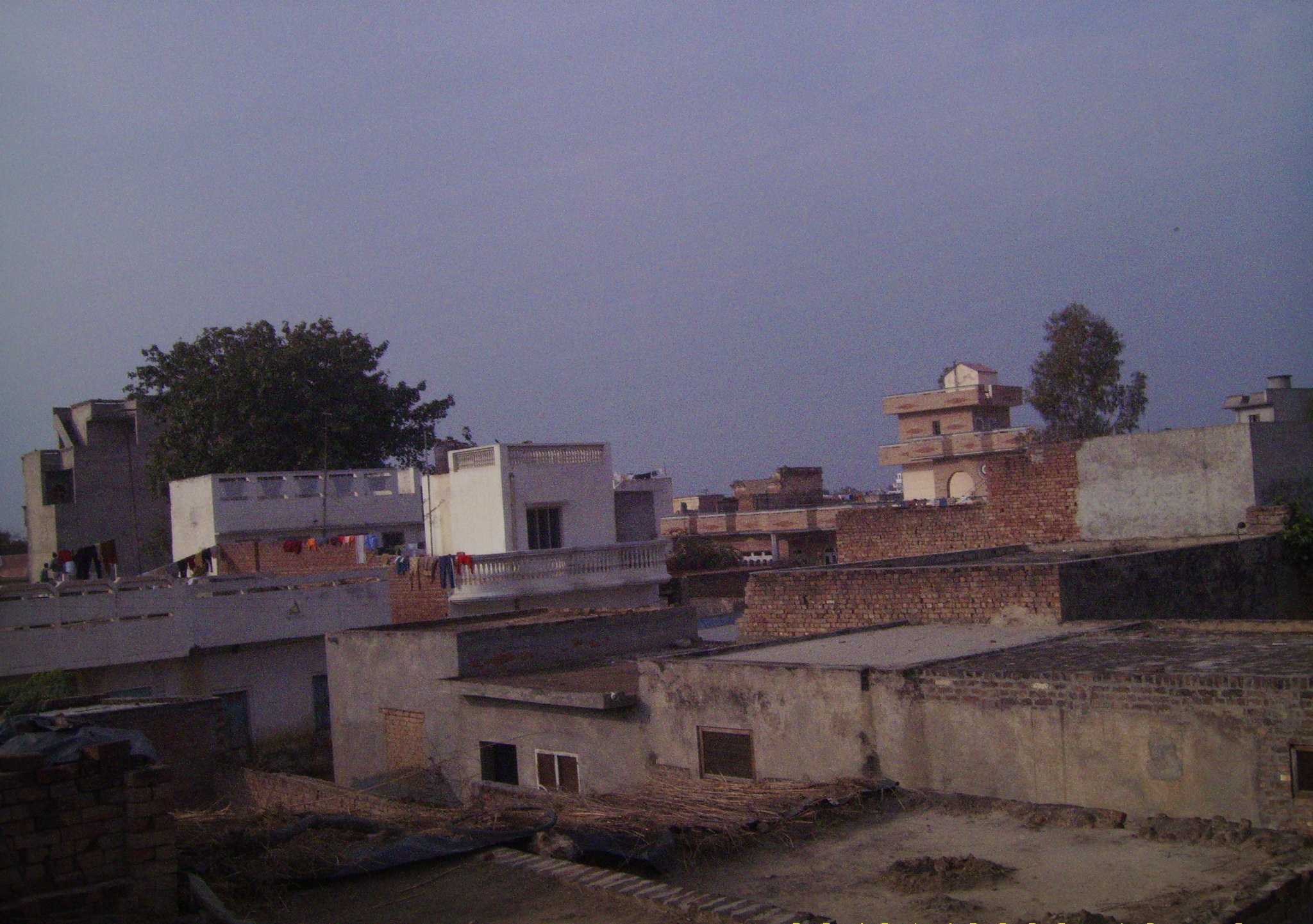 hi